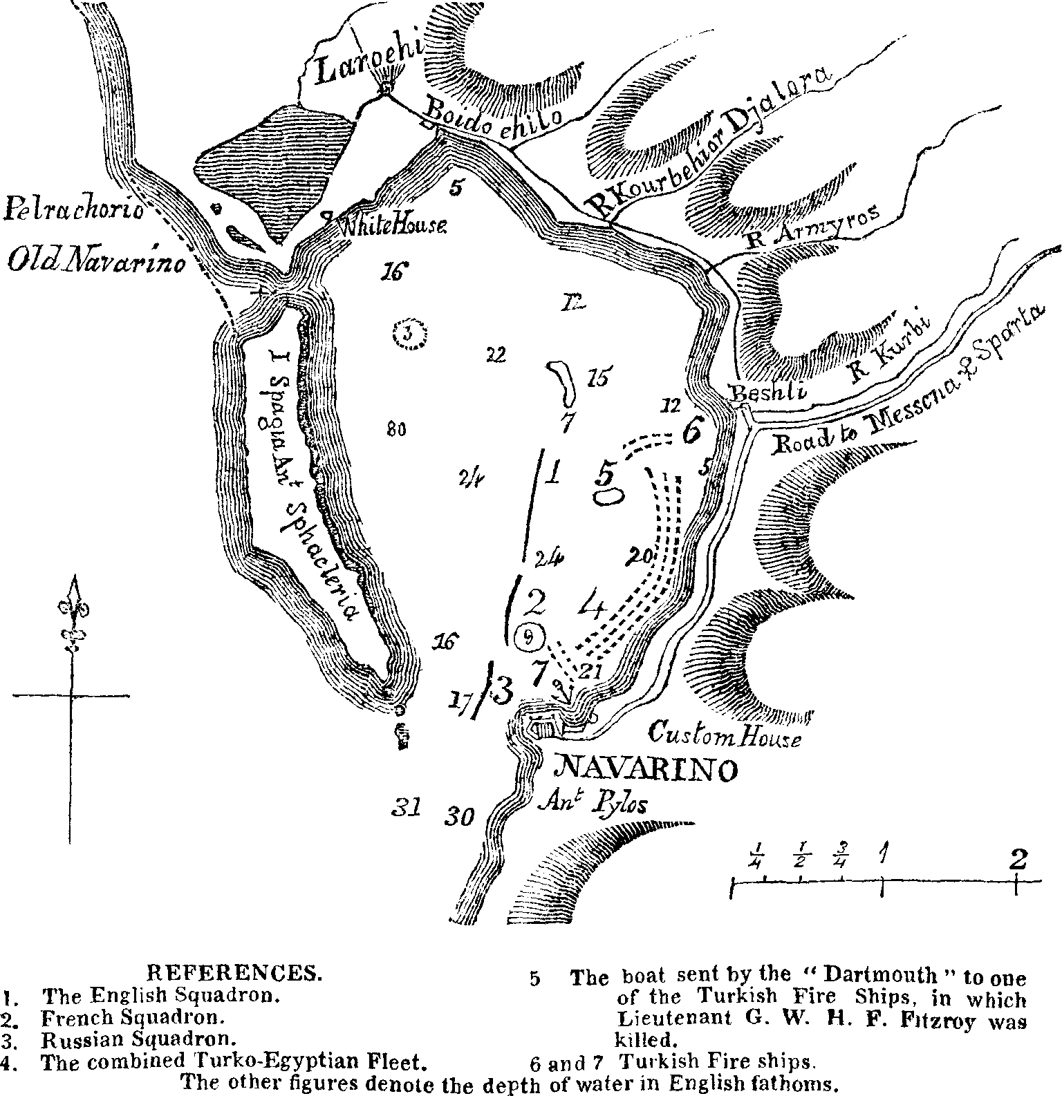 Le Plan de la Bataille de Navarin. Source : The Mirror of Literature, vol. XIII, 1829. Projet Gutenberg eBook. Note : this map is wrong / cette carte est fausse